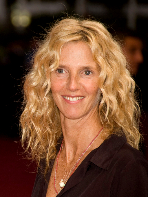 Sandrine Kiberlain at the 2009 Deauville American Film Festival